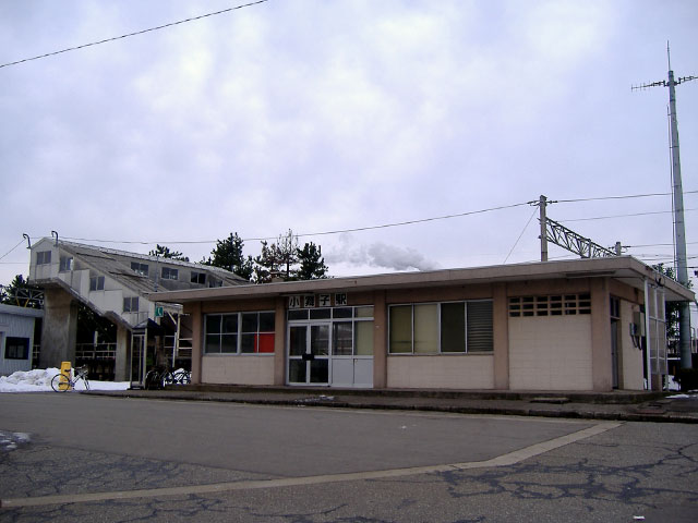 Komaiko Station on the JR West Hokuriku Main Line, in the city of Hakusan, Ishikawa Prefecture, Japan